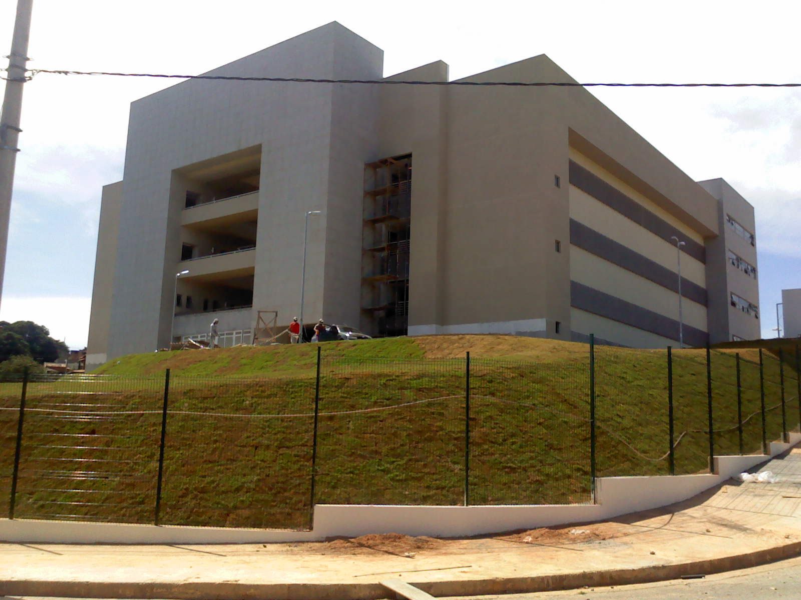 New building of the Forum in the County Judge Pedro Viana de Santa Luzia (MG).